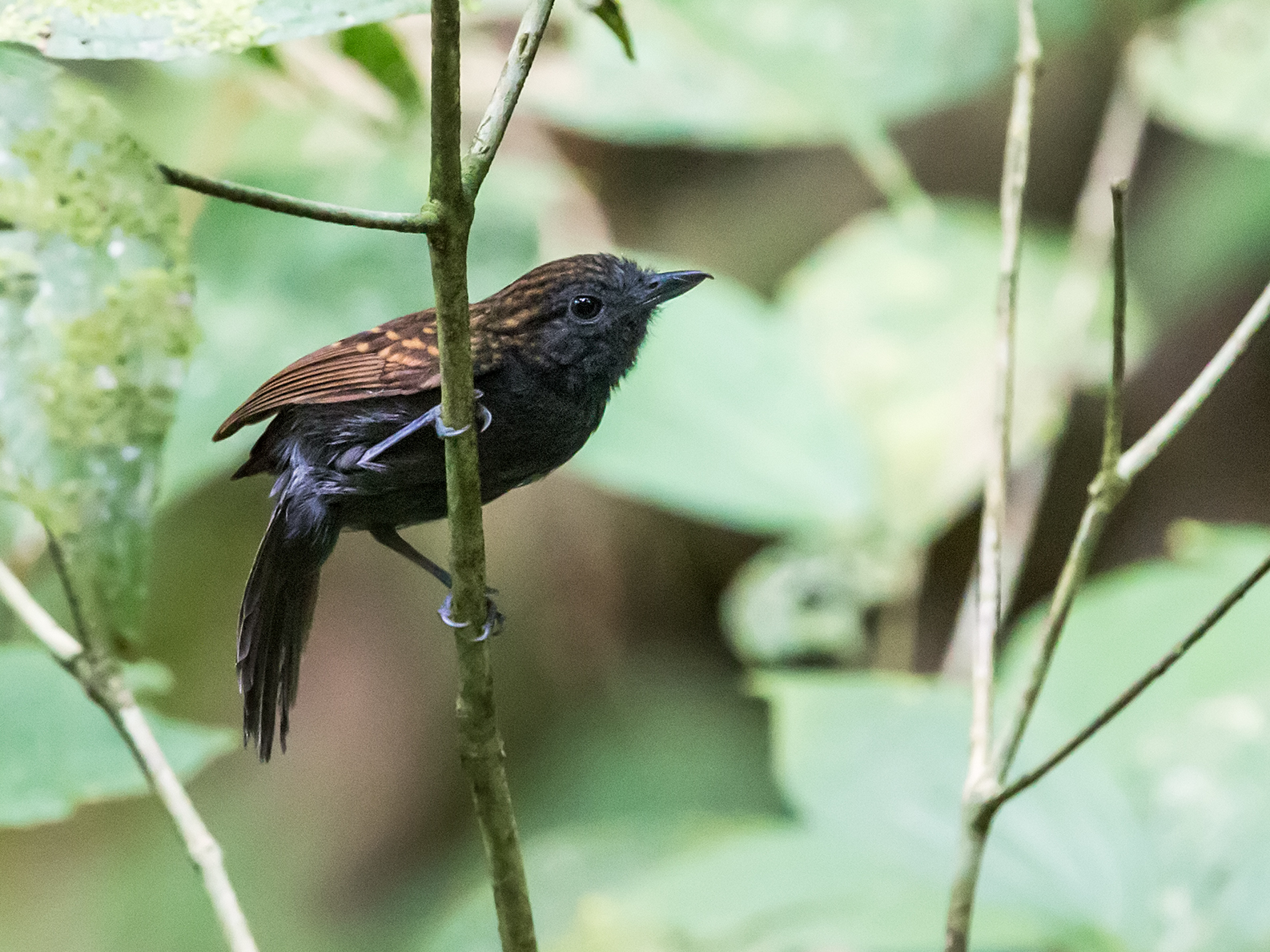 Spiny-faced Antshrike (Speckled Antshrike) from Nusagandi, Guna Yala, Panama.